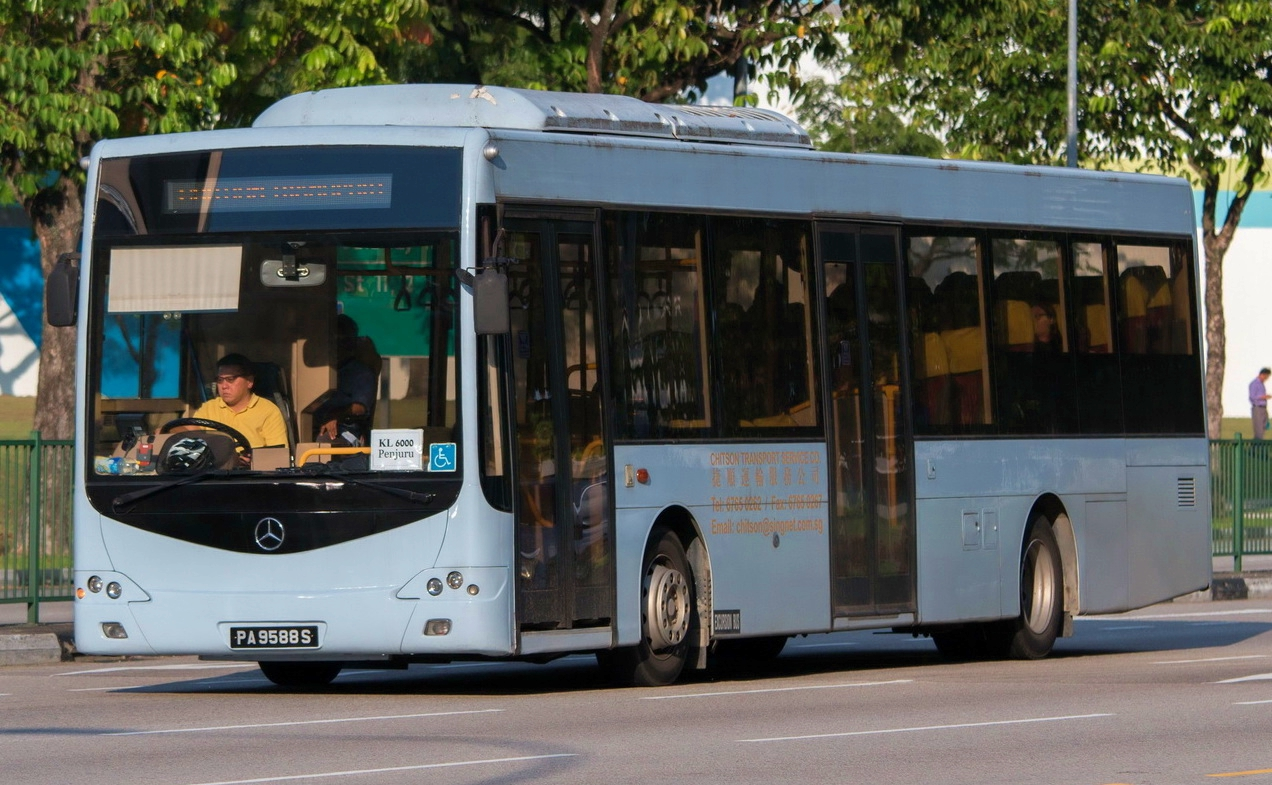 PA9588S Mercedes-Benz OC500LE Gemilang bodyworks. Was a demonstrated model for SBS transit